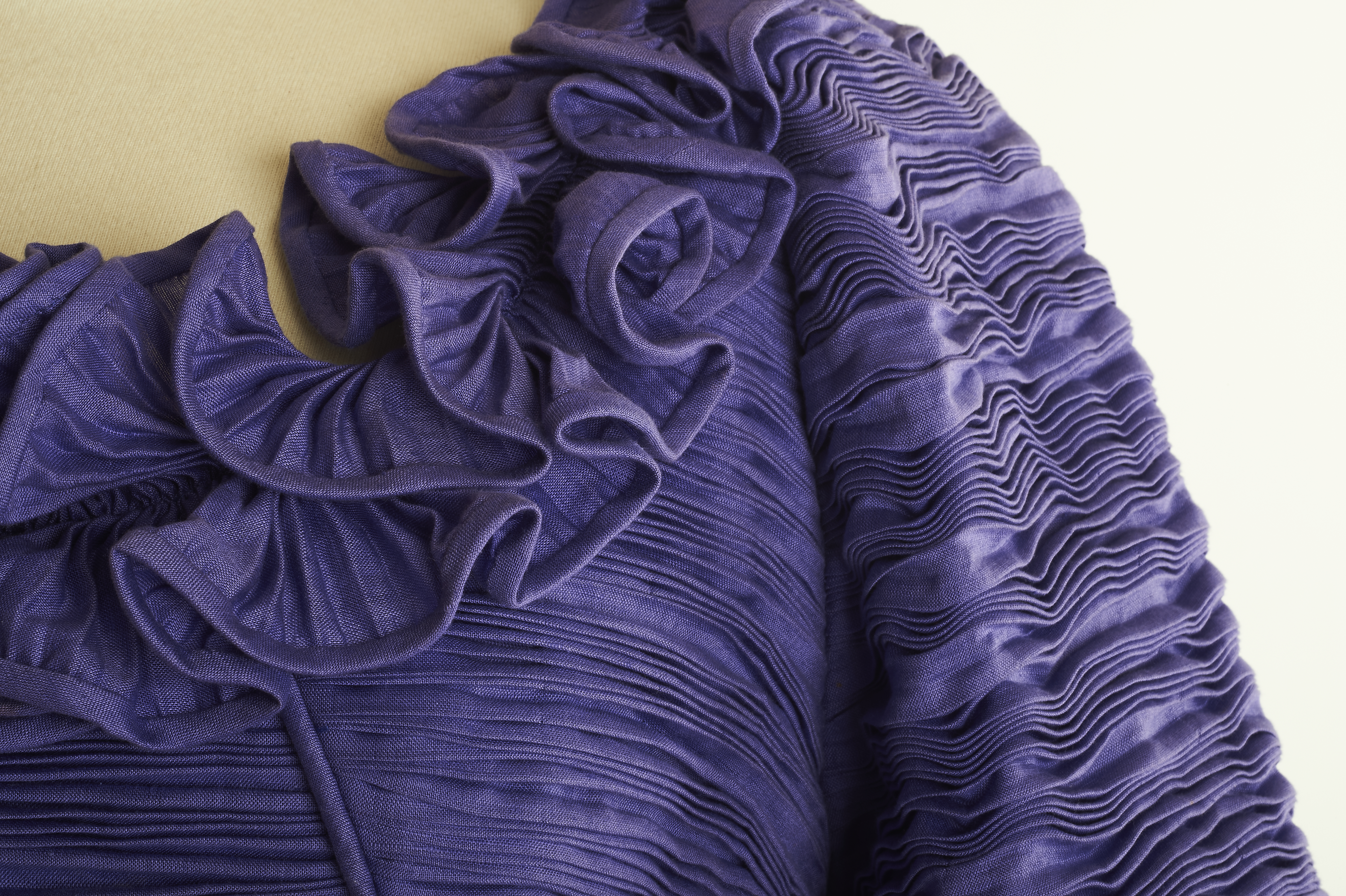 Detail of dress c. 1970 of gossamer pleated linen in horizontal rows with fitted bodice, frilled scoop neckline and three quarter length sleeves.